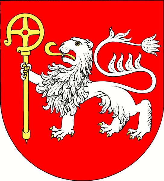 Municipal coat of arms of Klášter Hradiště nad Jizerou village, Mladá Boleslav District, Czech Republic.